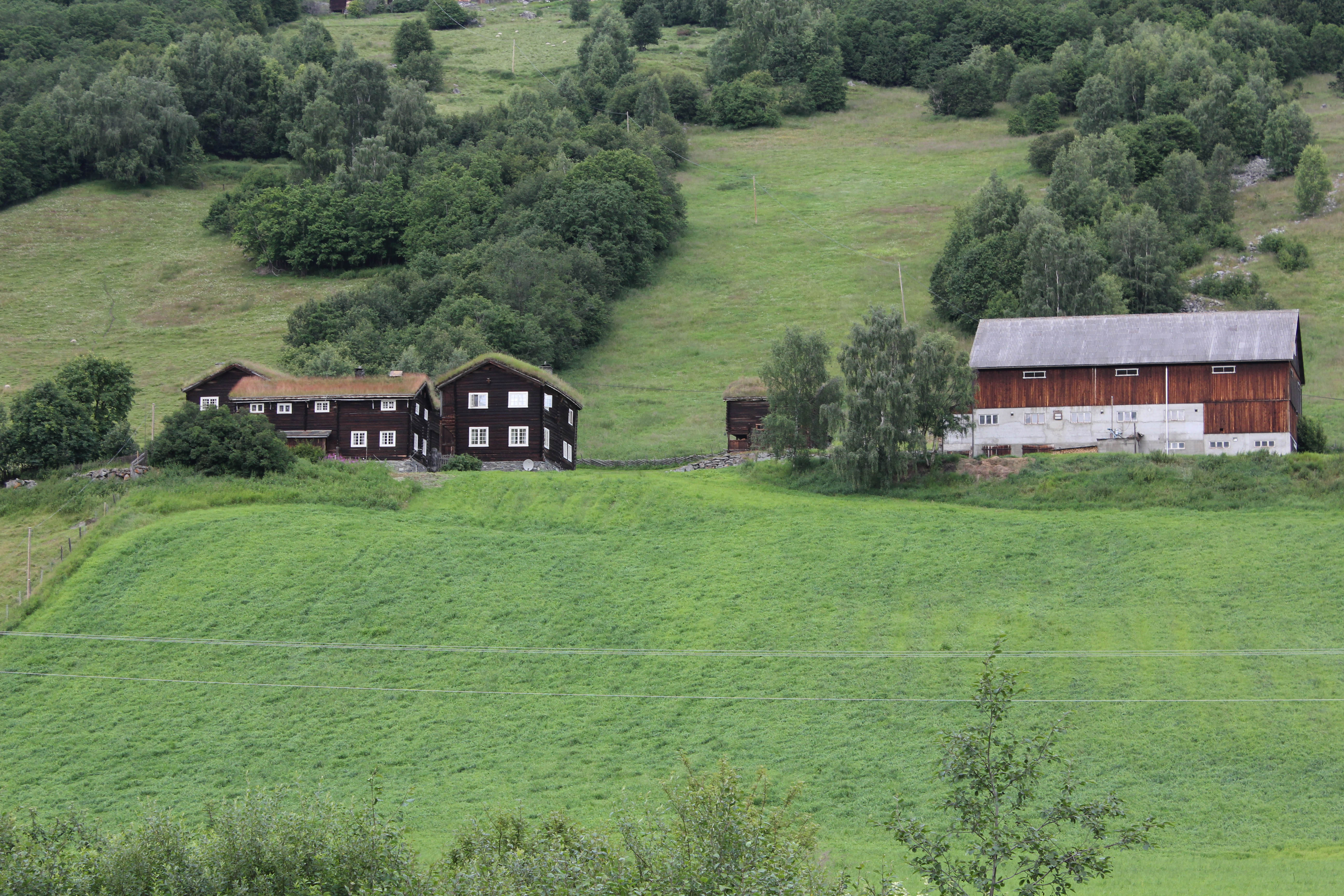 Søre (dialect for south) Harildstad, a farm in Heidal, Norway. Most of the buildings from the 18th century. All listed Norsk (bokmål): Søre Harildstad, en gård i Heidal, Sel kommune. Gården er totalfredet. De fleste bygningene fra 1700-tallet